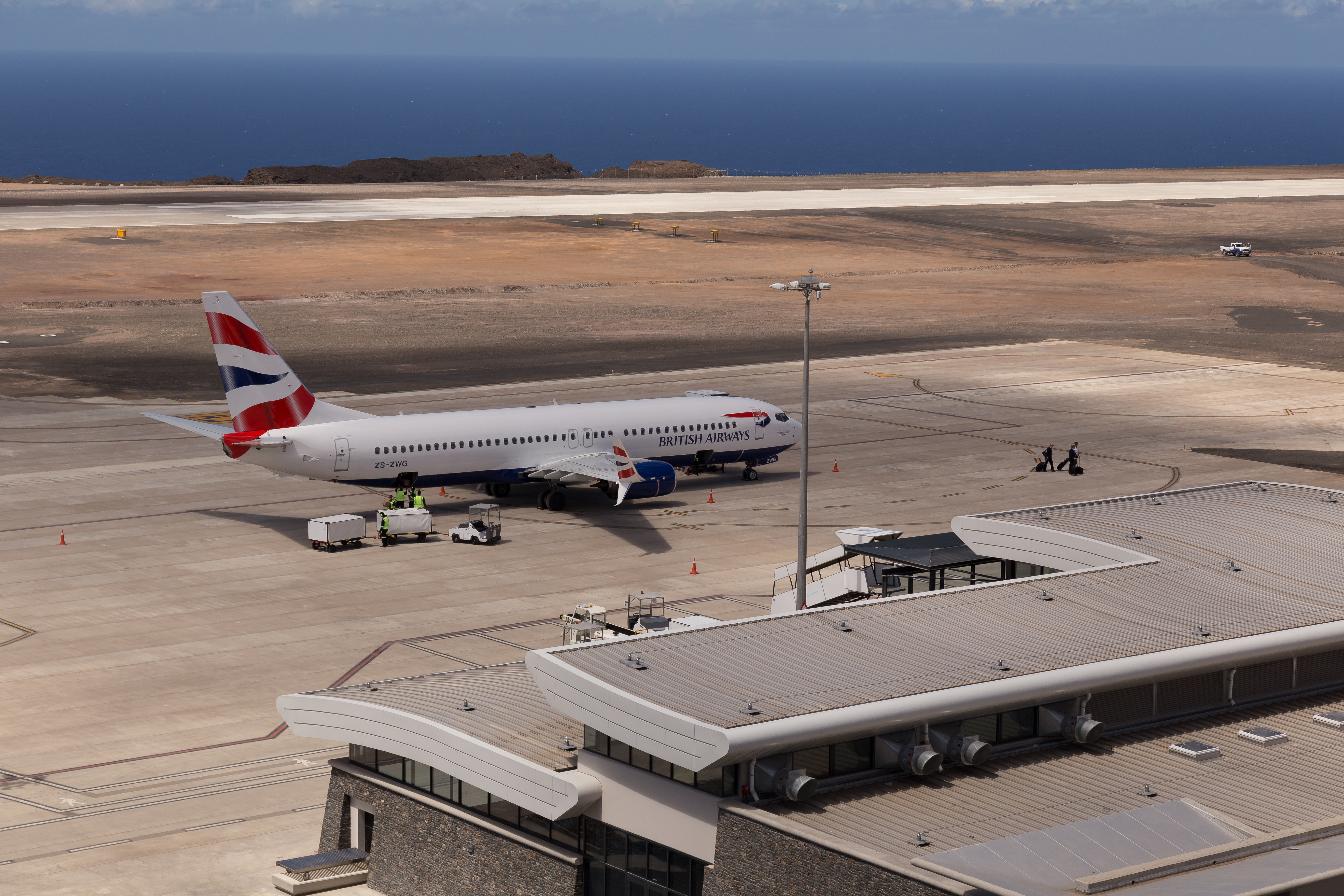 First Comair Boeing 737-800 flight to Saint Helena Airport